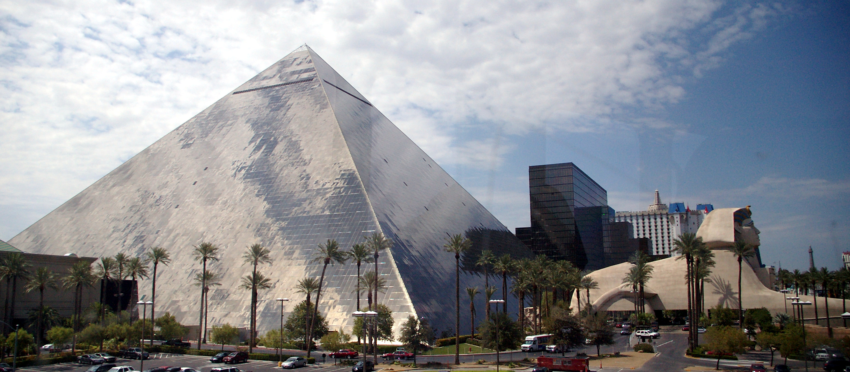 The Luxor hotel and casino in Las Vegas